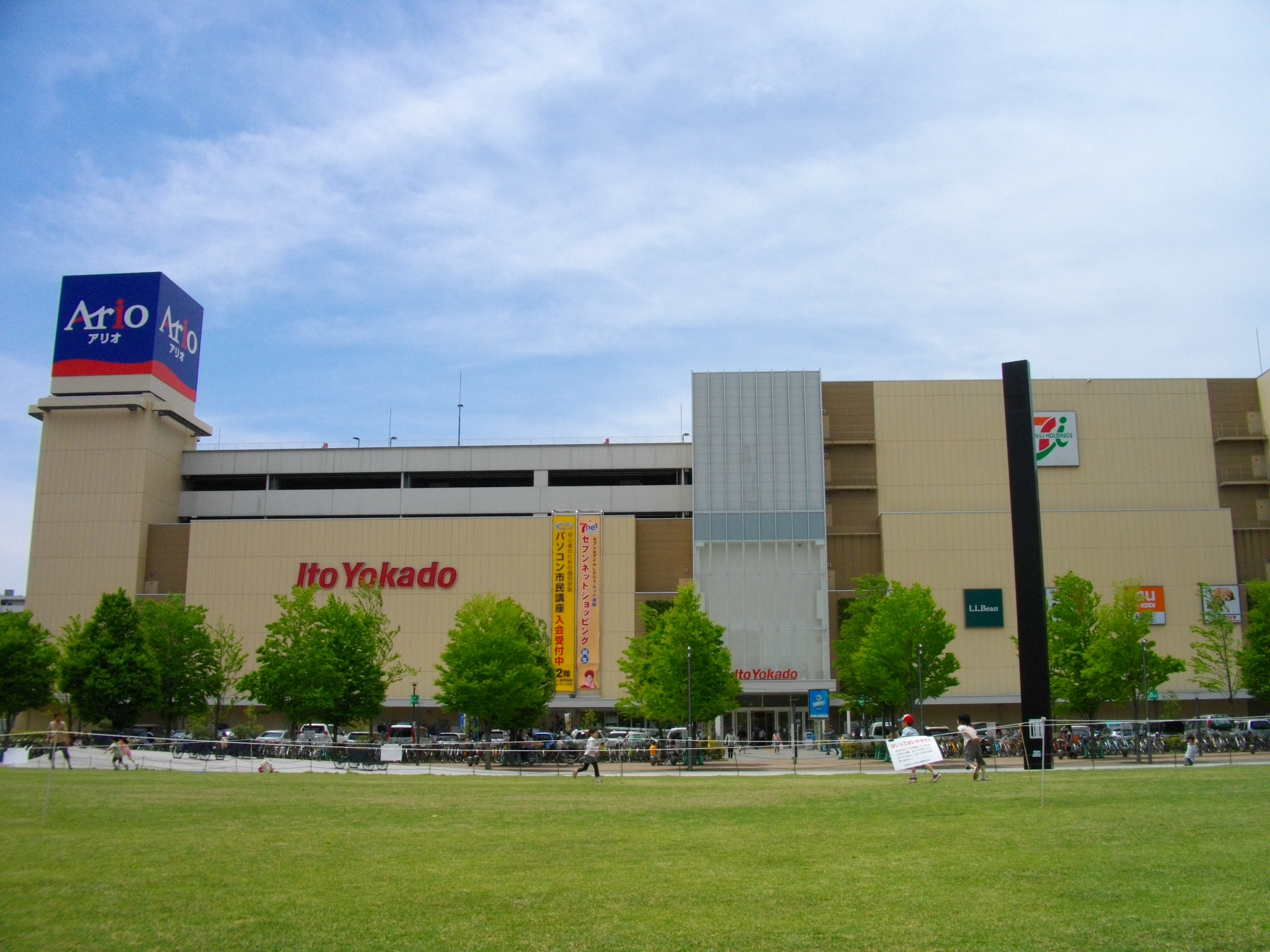 Ario Kawaguchi